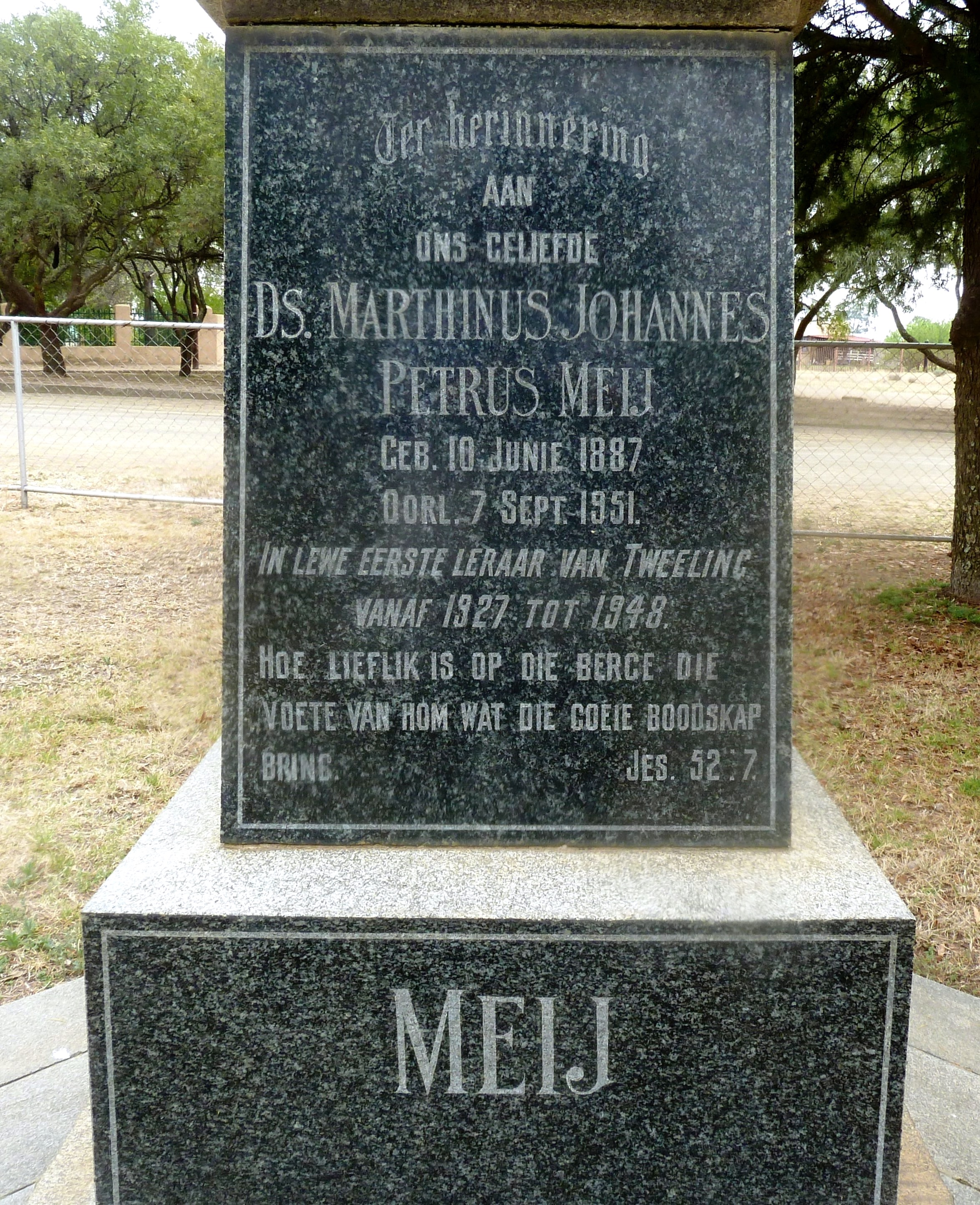 Beside the Dutch Reformed church building in Tweeling, Free State, is to be seen the gravestone of its first reverend, Rev. M. J. P. Meij (1887–1951).